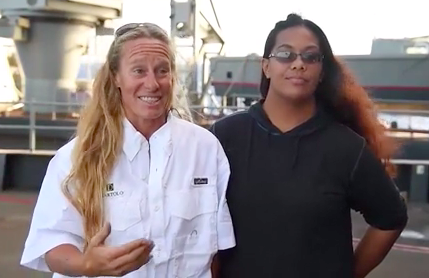 Jennifer Appel and Tasha Fuiava speaking about their time aboard USS Ashland